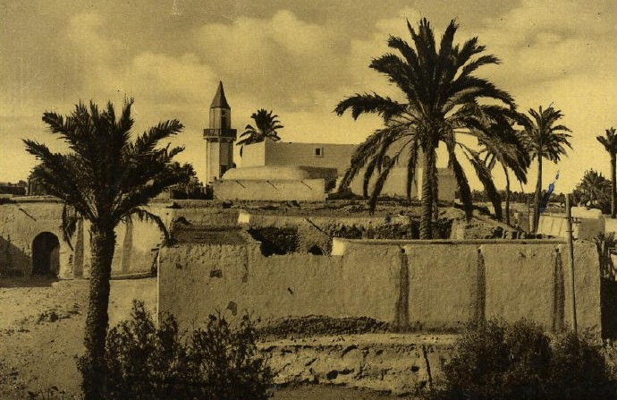 The Old Town quarter in Misurata, Libya